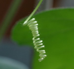 Passiflora foetida climb nl:Afbeelding:Passifllora-foetida.climb.jpg